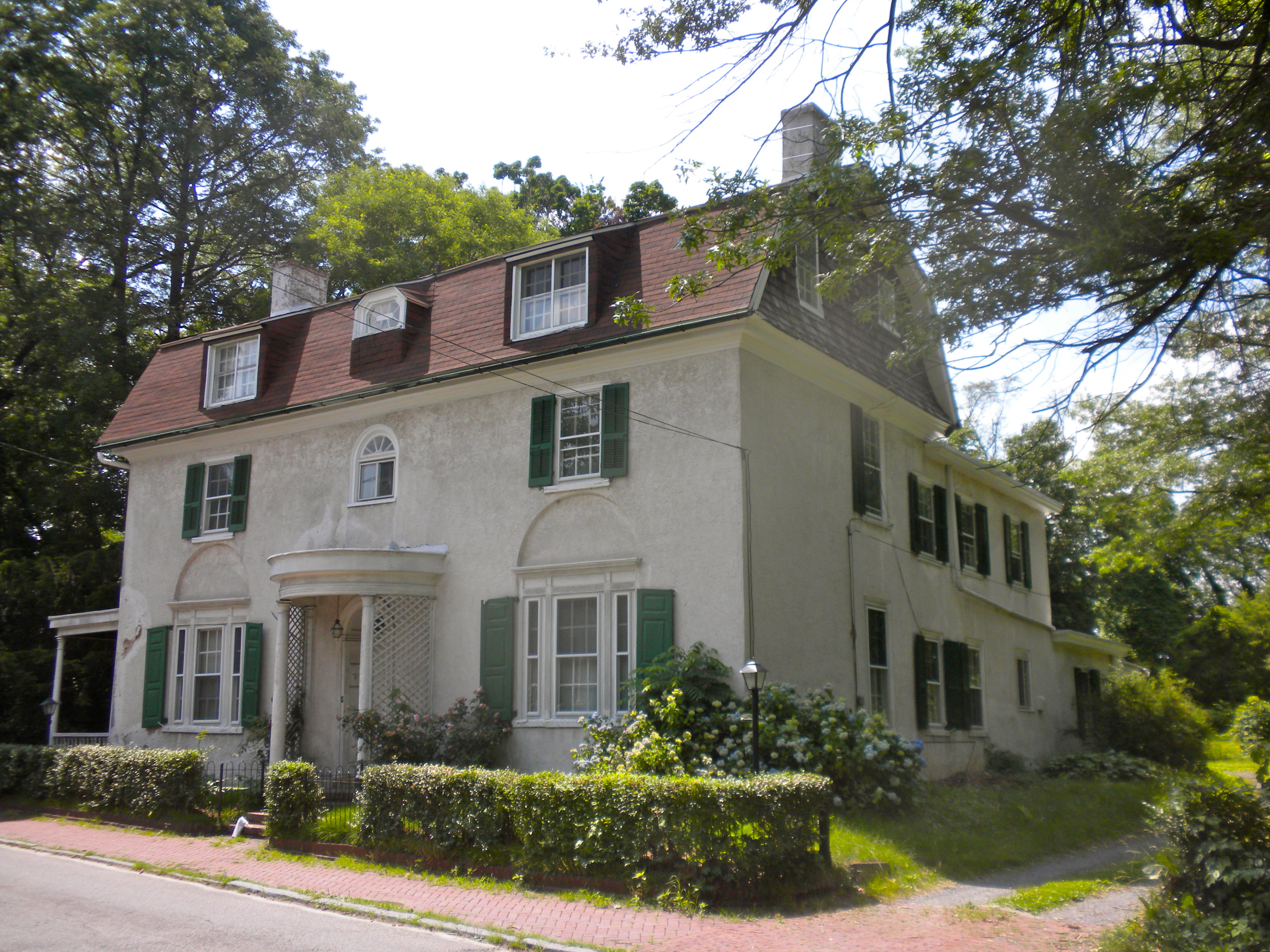 Fisher's Lane on NRHP since February 20, 1980. At 39–92 East Logan Street (this is number 39) in Wister neighborhood of Northwest Philadelphia, just off Germantown Road.